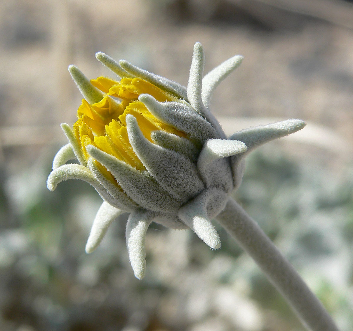 Enceliopsis nudicaulis var. corrugata in gypsum area about 600m SSW of Devils Hole, Ash Meadows, southern Nevada